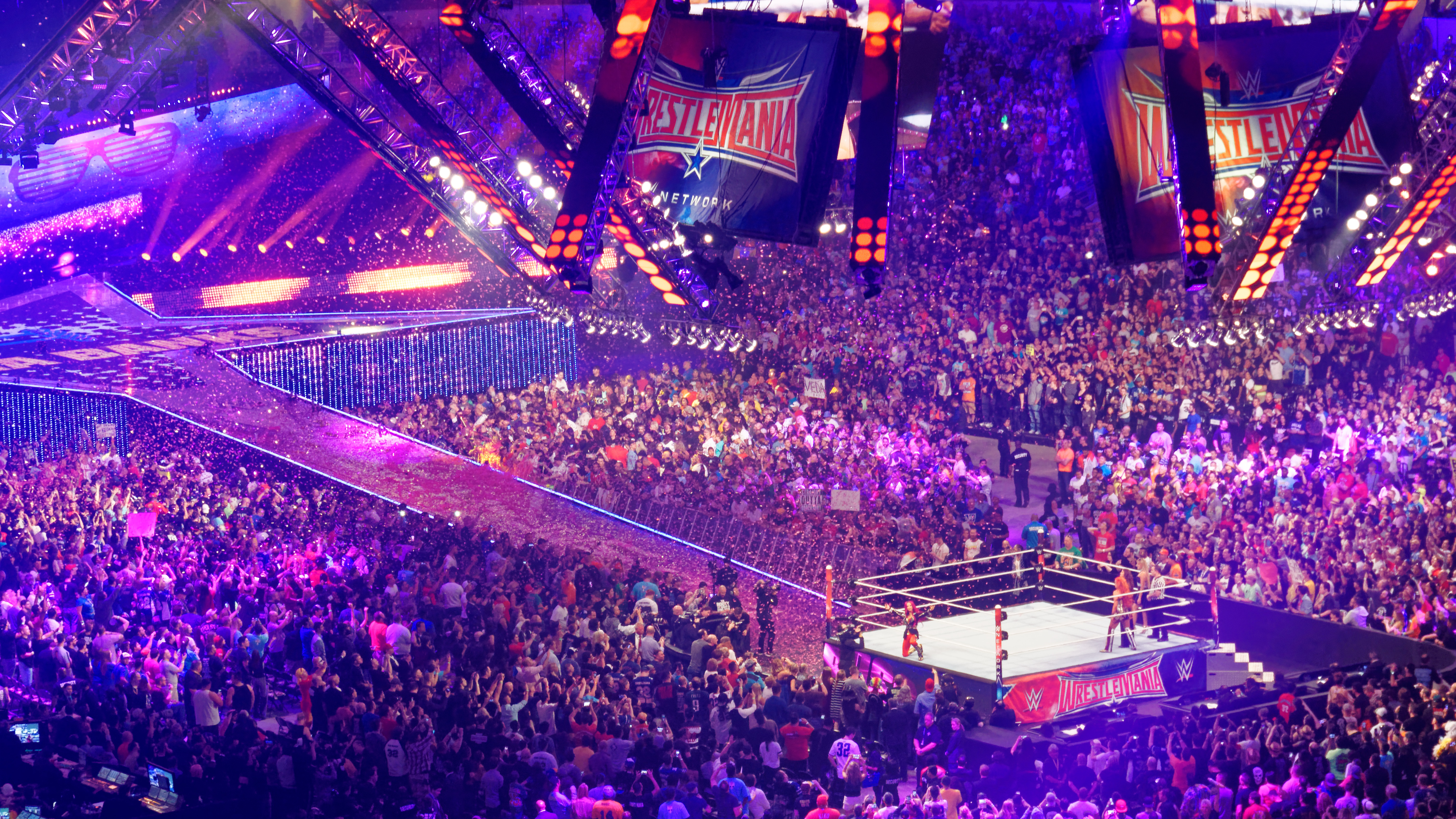 WrestleMania 32 was the thirty-second annual WrestleMania professional wrestling pay-per-view (PPV) event produced by WWE. It took place on April 3, 2016, at AT&T Stadium in Arlington, Texas. Twelve matches were contested on the card (with three matches occurring on the WrestleMania Kickoff pre-show - two airing live on the USA Network, which televised the second hour of the pre-show). Charlotte def. (sub) Becky Lynch, Sasha Banks (in 16:03) Type of match : triple-threat For : WWE Women's Championship (new Woman Title) Rating : ****